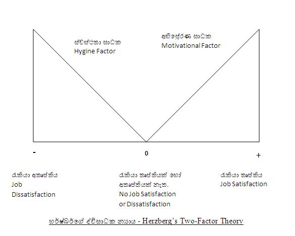 Herzberg's Two Factor Theory